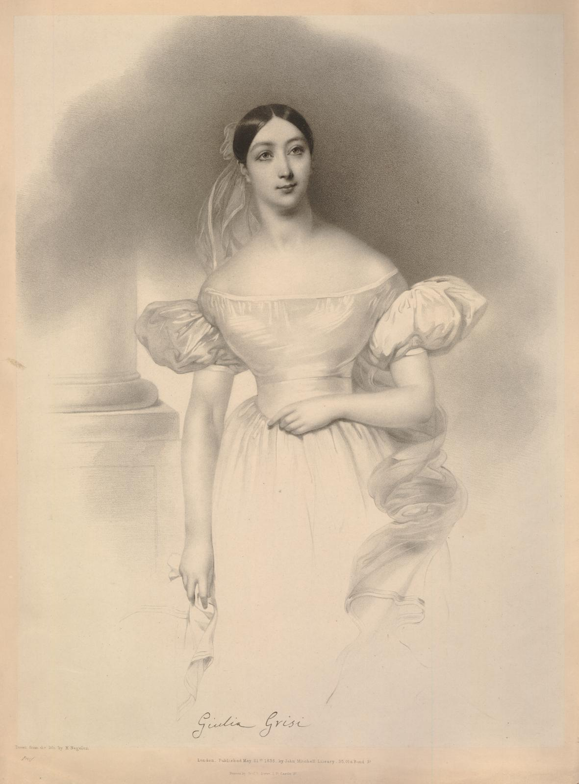 Portrait of Giulia Grisi, three quarter-length, facing front, pointing imperiously to the left, dressed in a low-cut dress with puff sleeves, a column in the background; a facsimile of her signature below; proof; after Negelen. 1835 Lithograph on chine collé